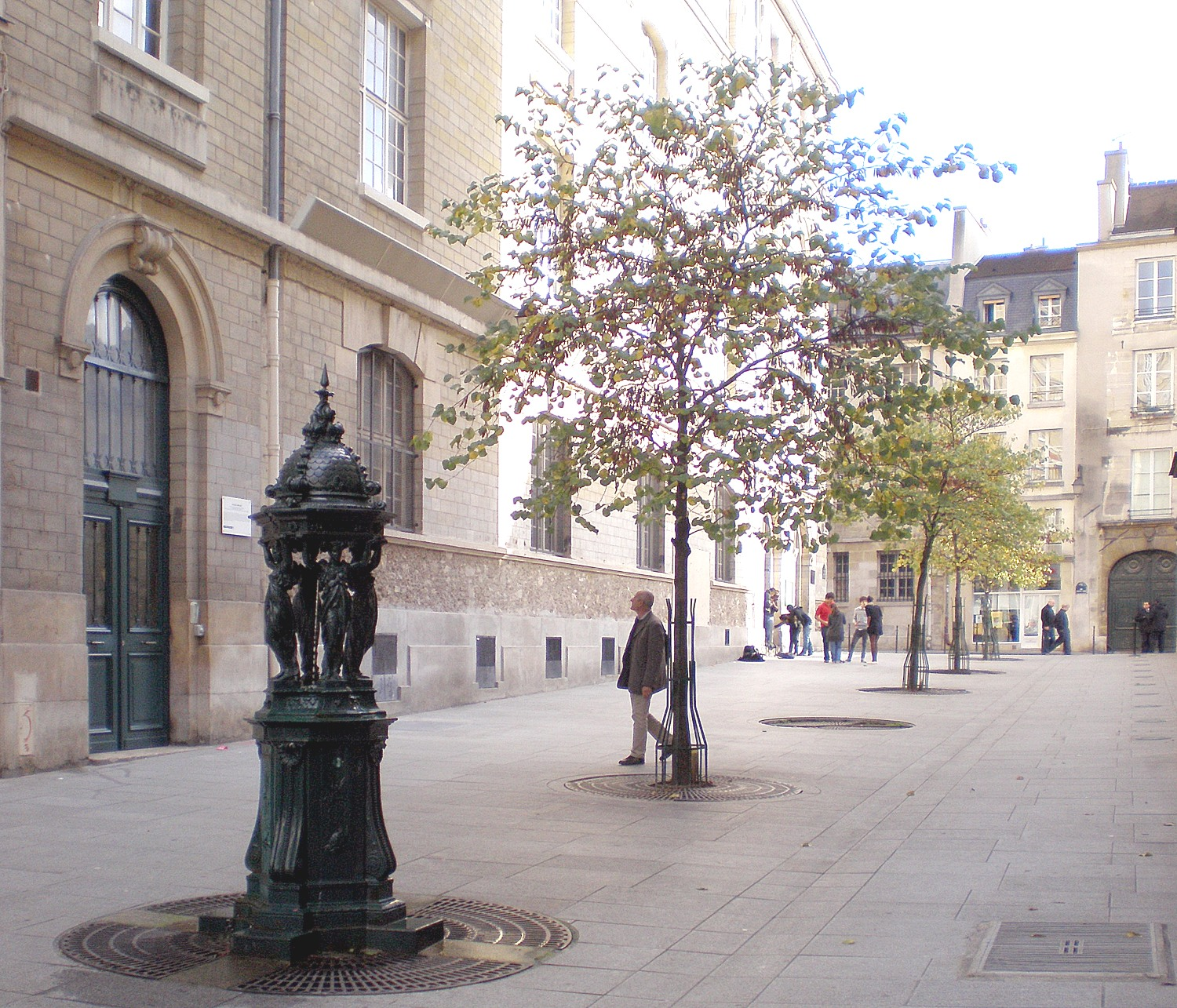 Fontaine Wallace - Paris